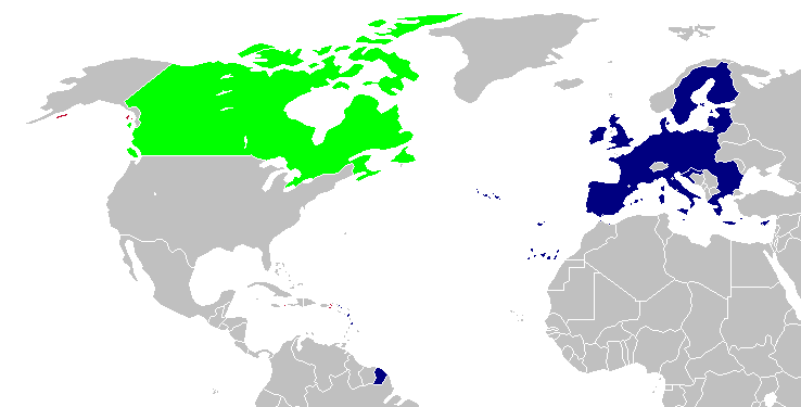 Comprehensive Economic and Trade Agreement Canada – European Union